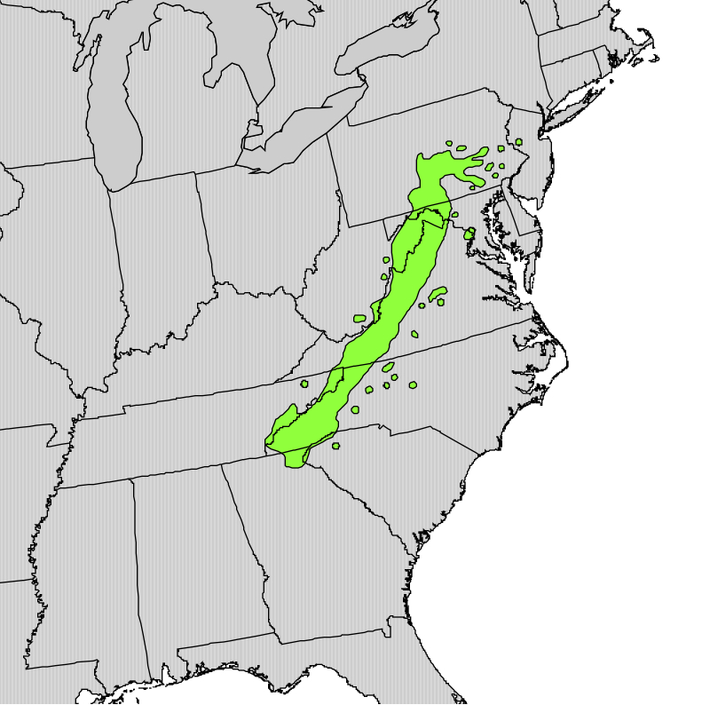 Range map of Pinus pungens